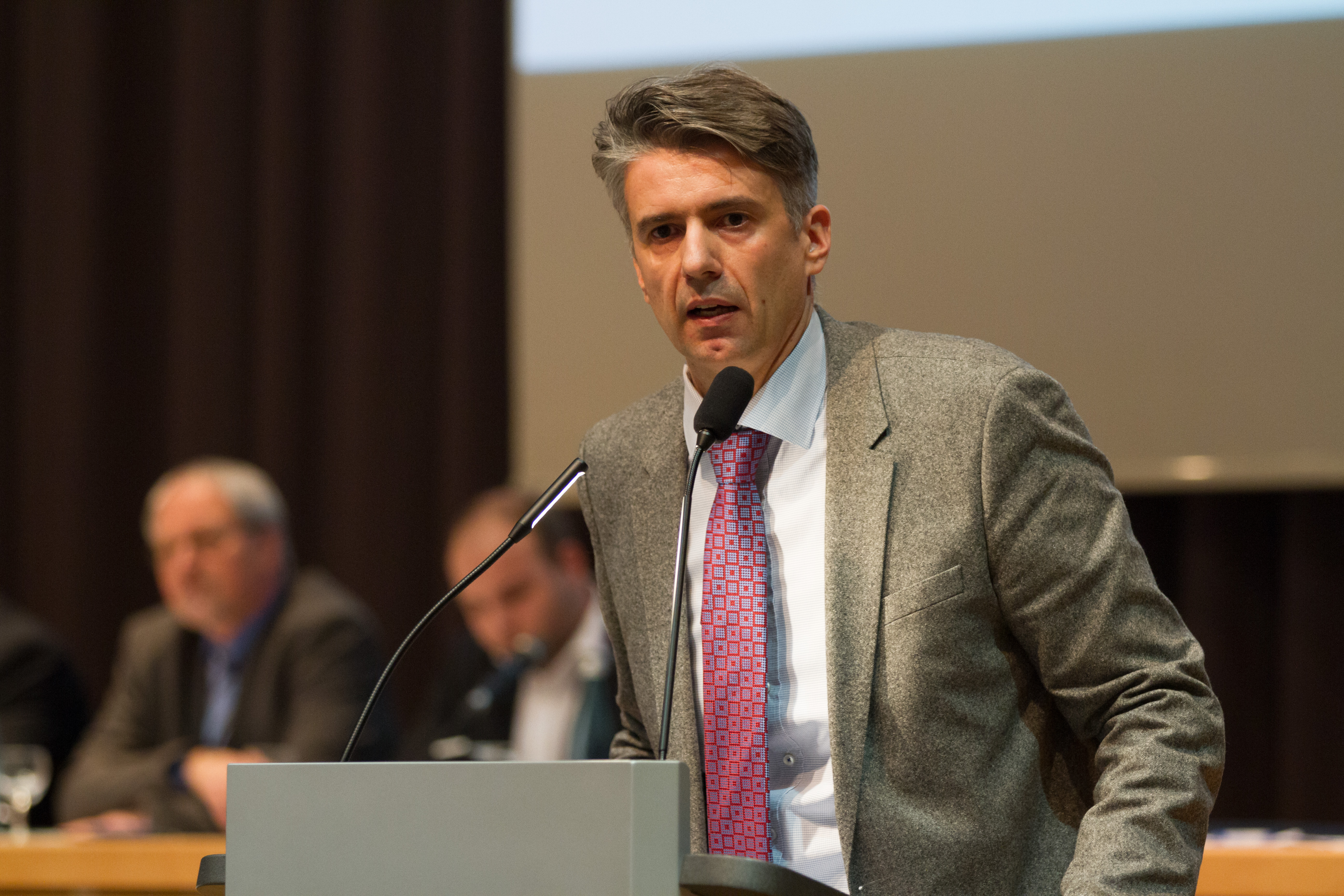 Series: 6th party convention of the AfD Baden-Württemberg in Karlsruhe-Neureuth on January 17th and 18th, 2015. Image: Marc Jongen